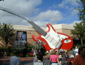 A giant red electric guitar greets parkgoers outside the Rock 'n' Roller Coaster ride at Disney-MGM Studios at Walt Disney World, December 2004.